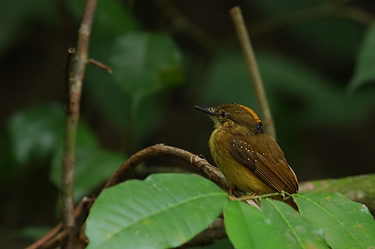 A fantastic wee bird which only briefly and partially fanned its crest when it first landed. Image taken in Santa Rosa NP, Guanacaste, Costa Rica.